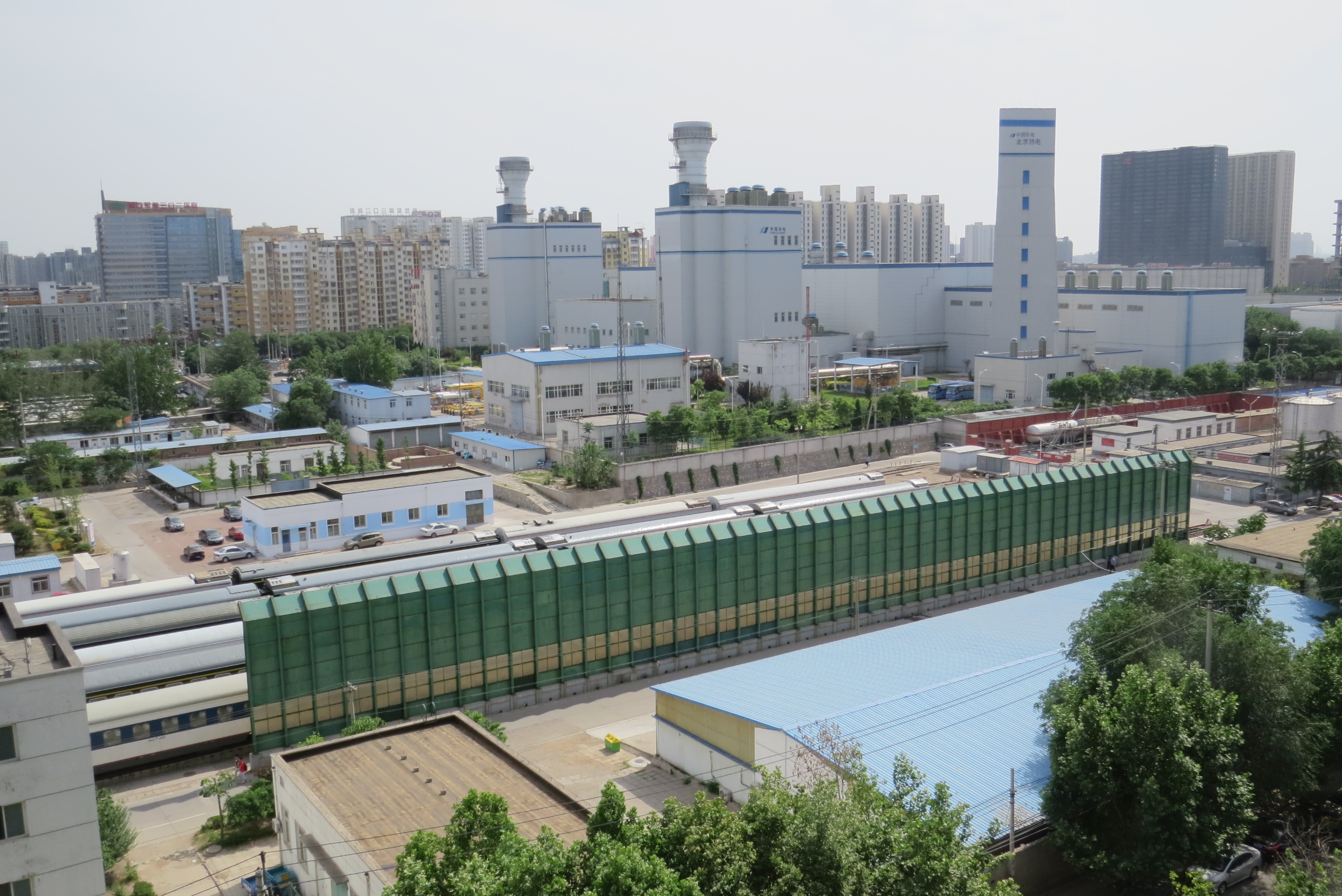 A power plant is on the south.